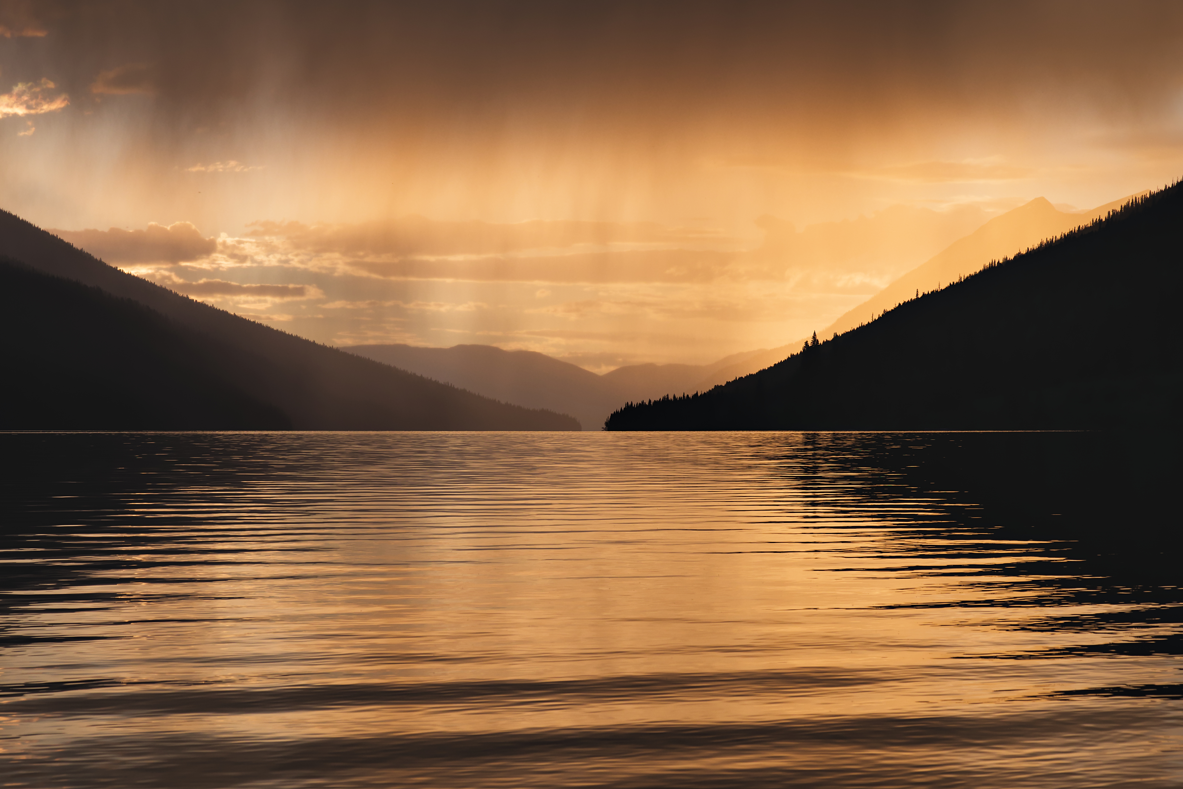 Isaac Lake during golden hour, moments before a storm (Bowron Lake Provincial Park, BC) This photo was taken in a protected area in Canada, Wikidata item Bowron Lake Provincial Park (Q4951406)